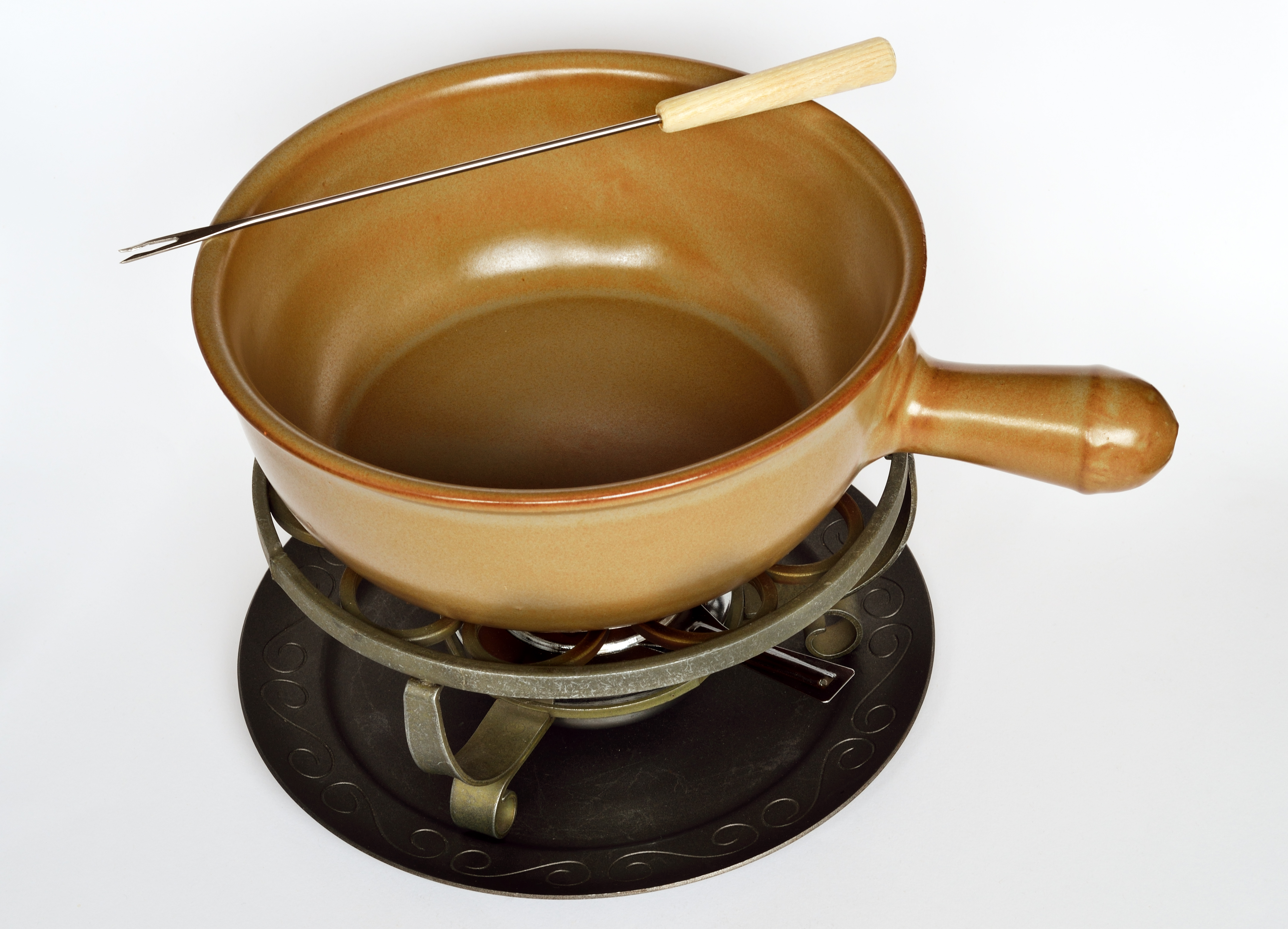 a caquelon with a portable stove